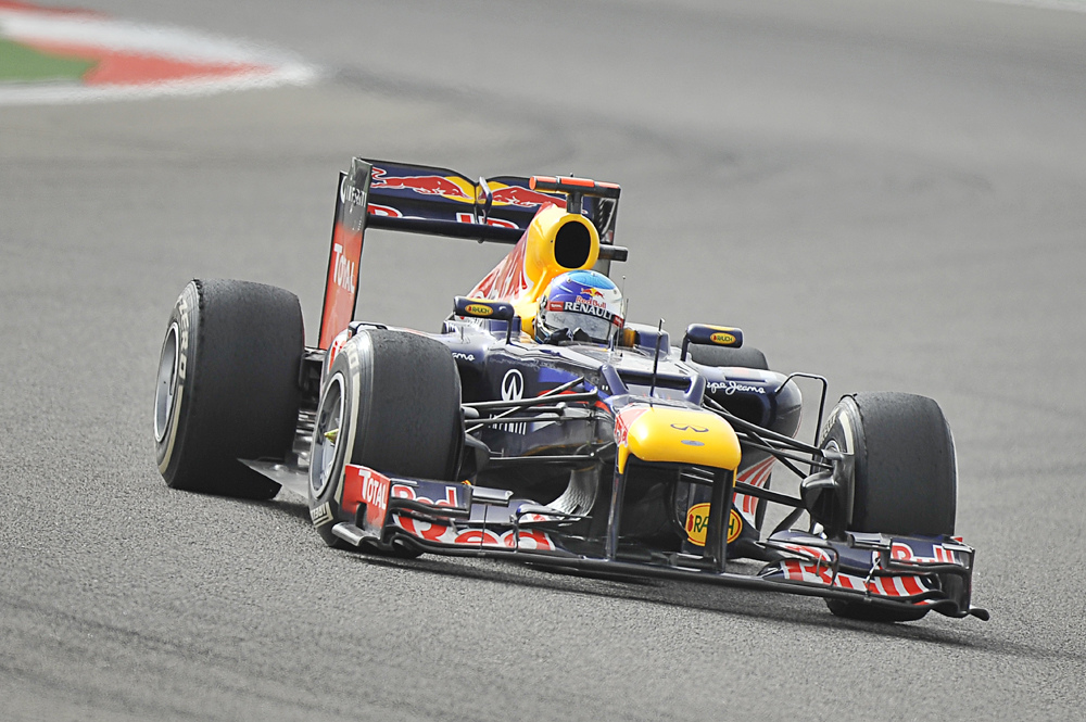 Sebastian Vettel at the 2012 Bahrain Grand Prix.